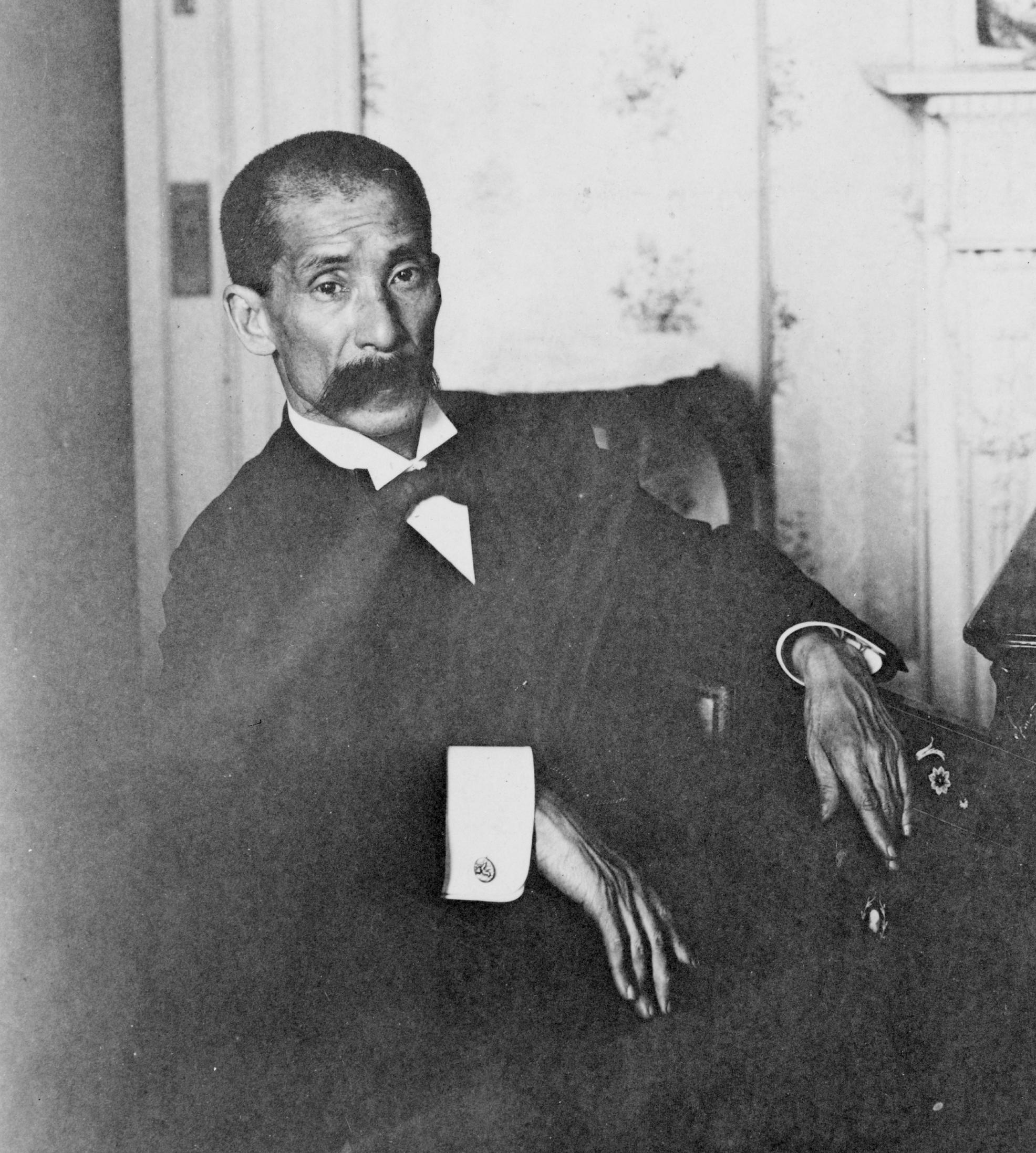 Komura Jutarō in 1905.